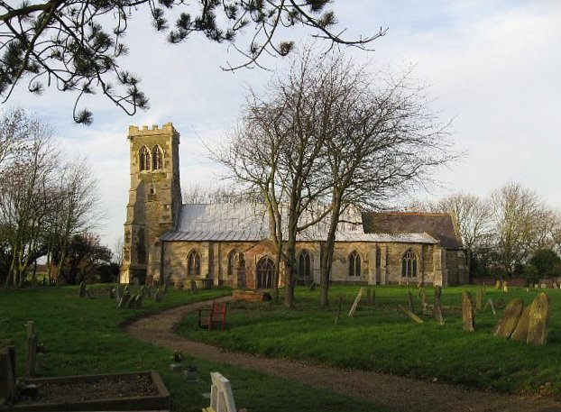 The Parish Church Of All Saints Saltfleetby All Saints. The tower really does lean away from the church, as in the photograph. A fillet has been inserted between the tower and the church roof to keep the interior watertight. Saltfleetby St. Clement and Saltfleetby St. Peter are separate hamlets in the area, distinguished by the Saint to whom their churches are dedicated.